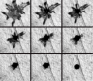 I made this composite and donate it to public domain